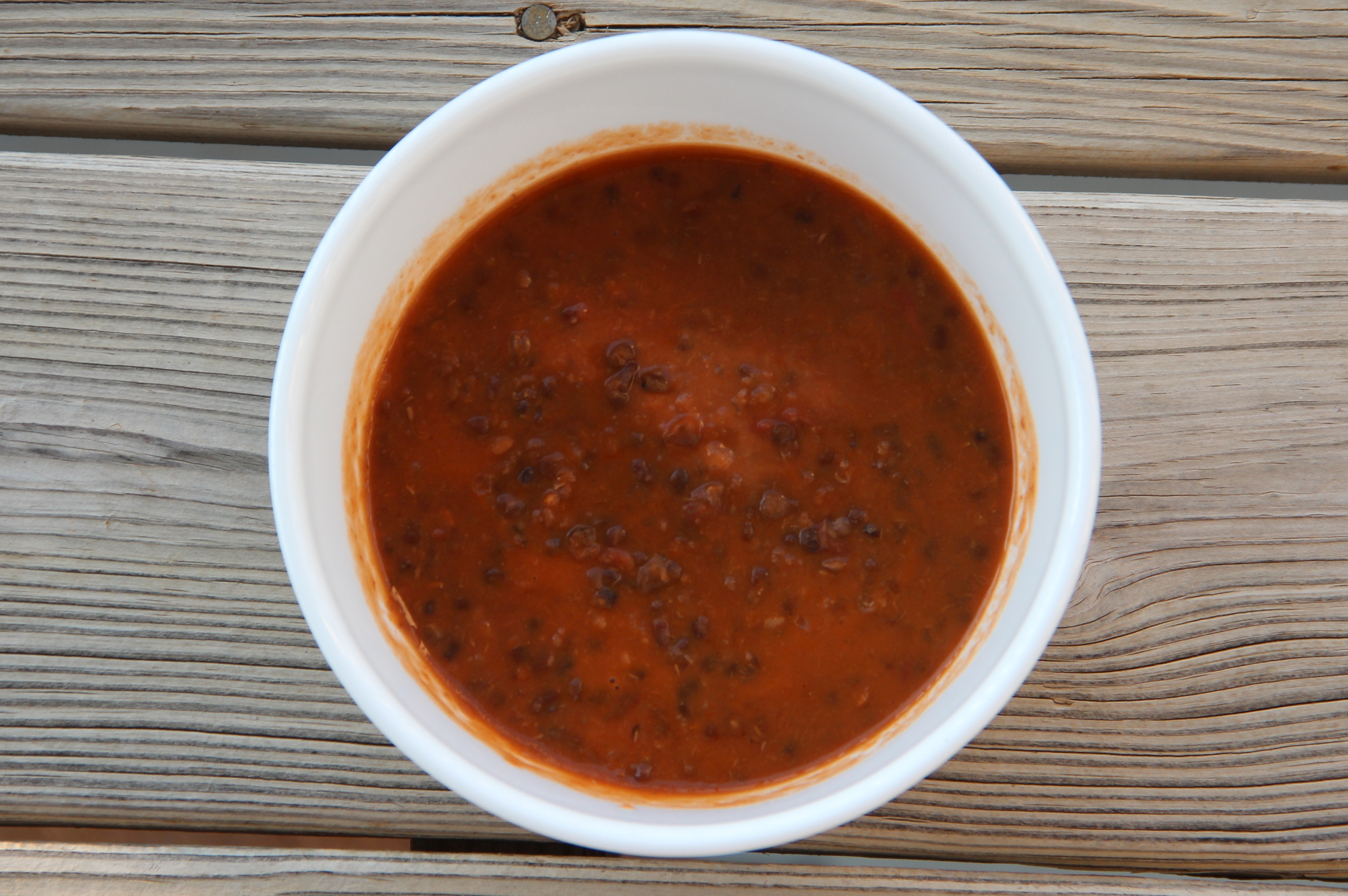 Bowl of Tasty Bite Madras Lentils